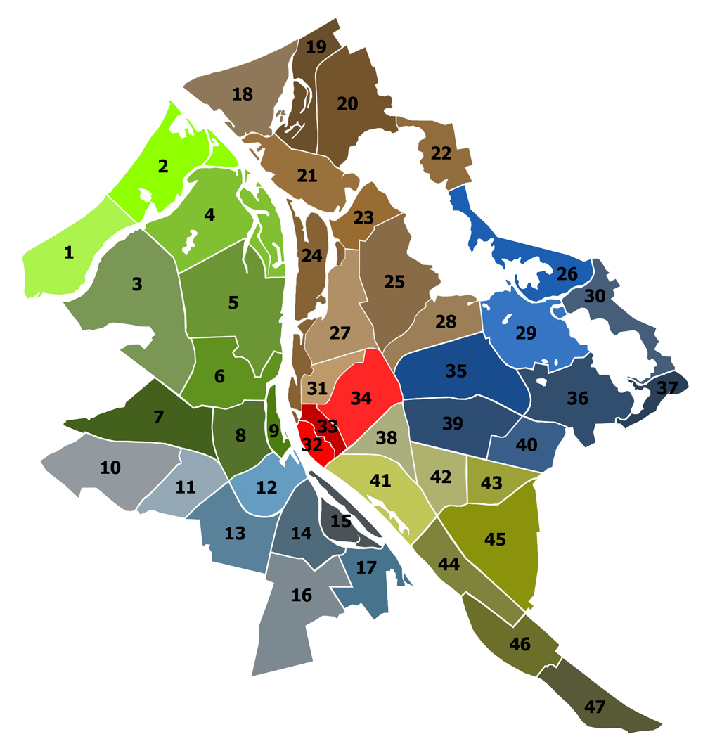 Map of the 47 micro regions (Latvian: mikrorajoni) of Riga